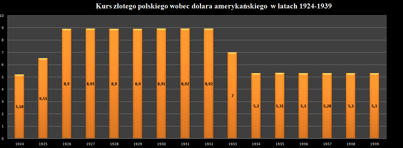 USD to Polish Zloty Exchange Rate 1924-1939